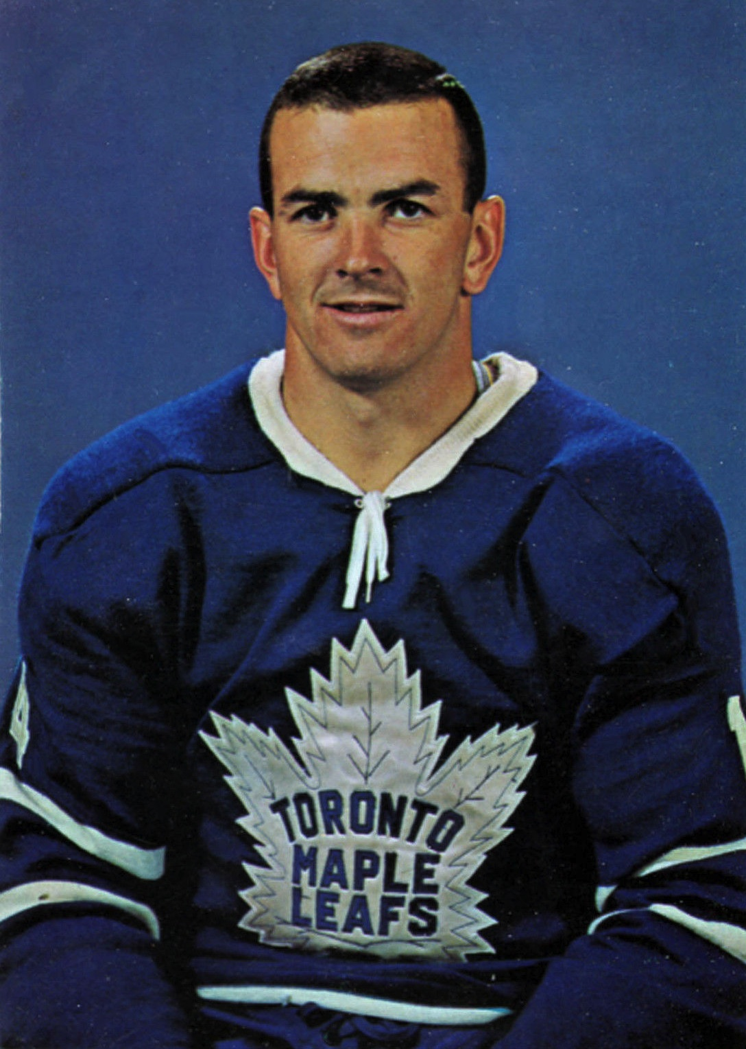 Dave Keon, Toronto Maple Leafs Printed on Chex Cereal Boxes from 1963 to 1965 per [1] and [2]. No copyright notices are observed on the obverse or reverse of the photos.